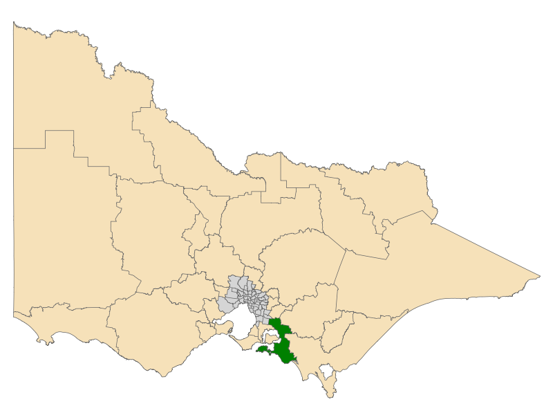 Location of the Electoral District of Bass (dark green) in the state of Victoria, Australia. These boundaries were used for the Victorian state election on 29 November 2014.